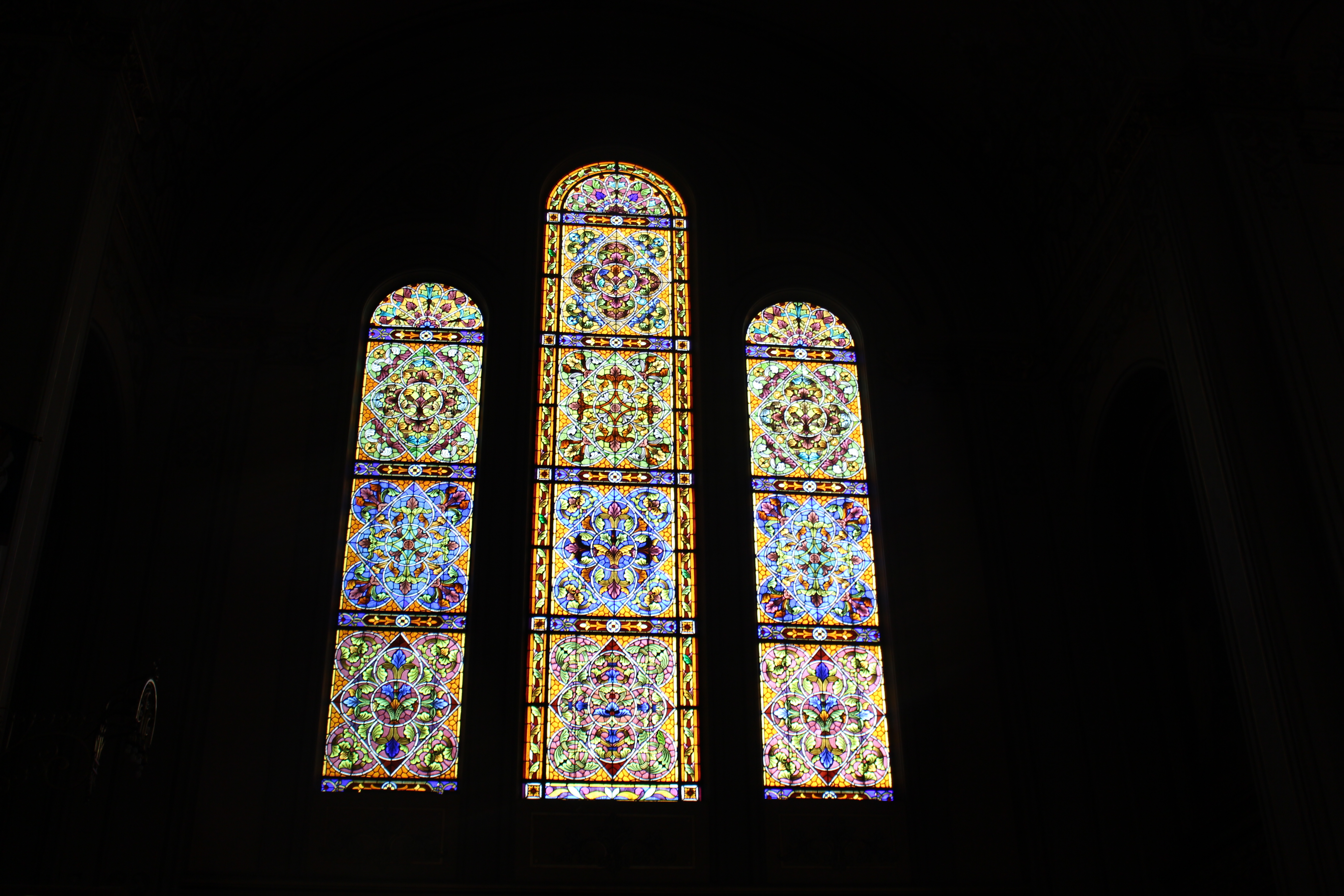 3 stained glass windows that are appreciated from the inner part of the sargrada familia parish, located in the Colonia Roma, Mexico City.